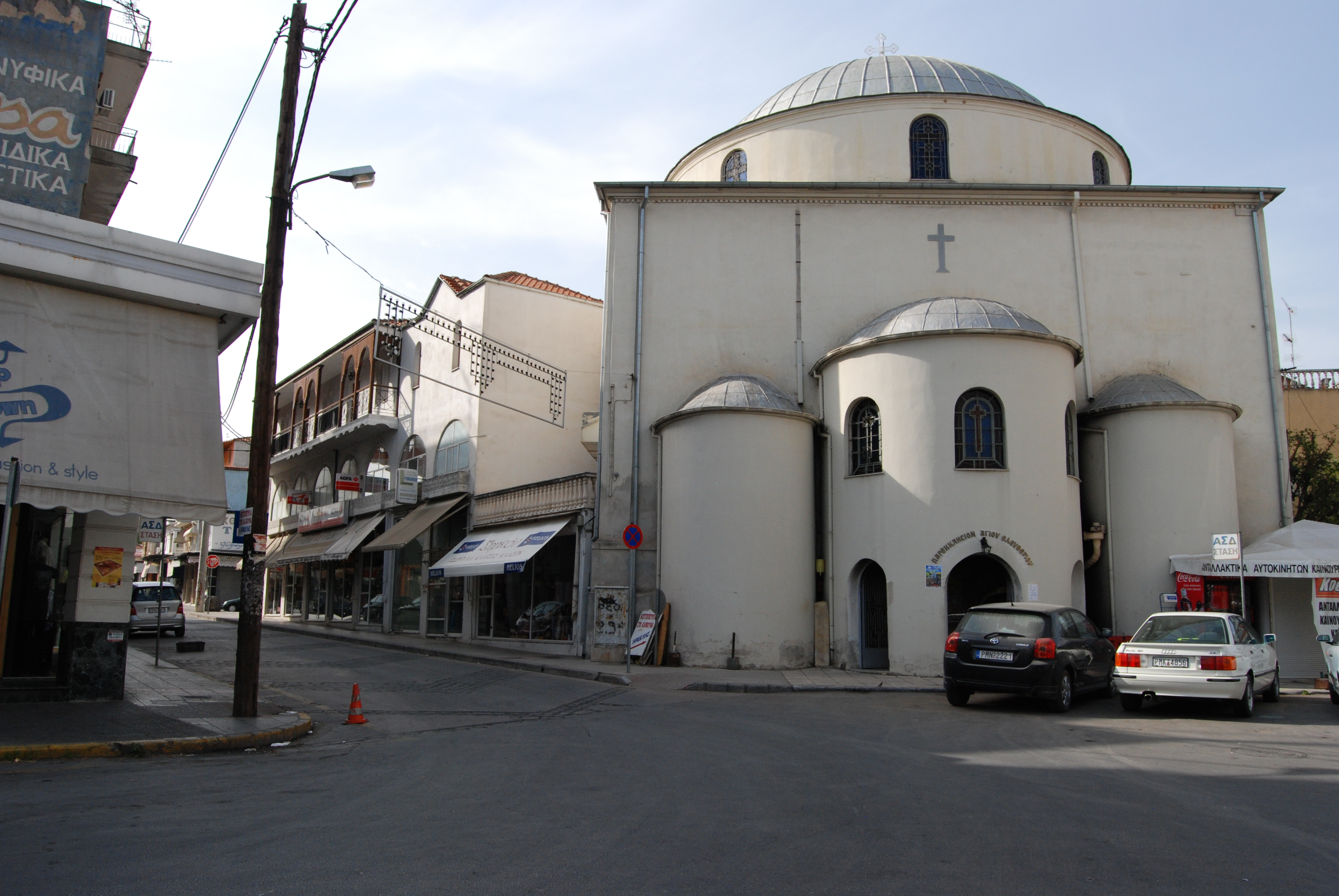 The church of St. Nicholas (former mosque) in the town of Drama, Greece